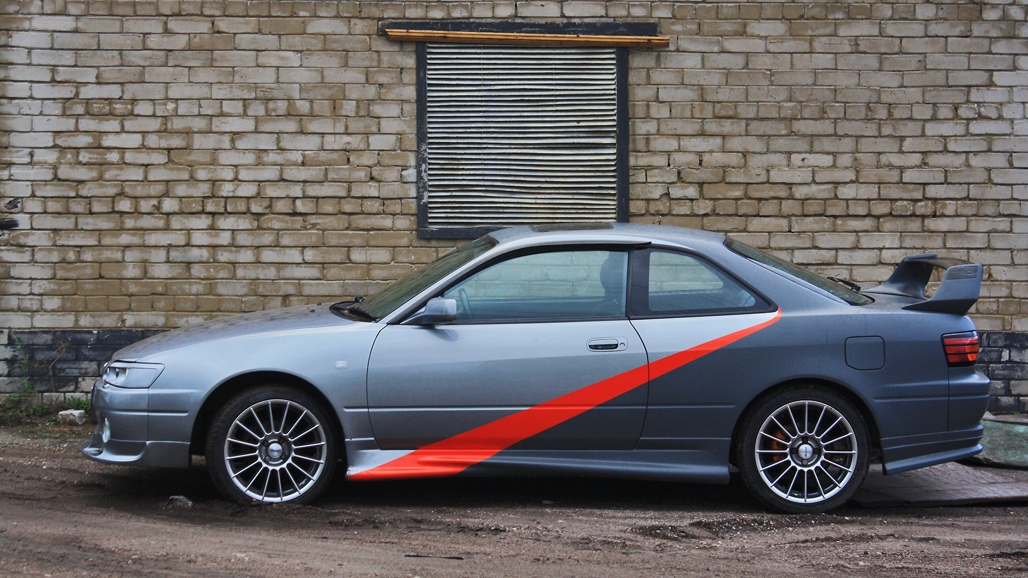 Toyota Corolla Levin 1995, AE111 (facelift)